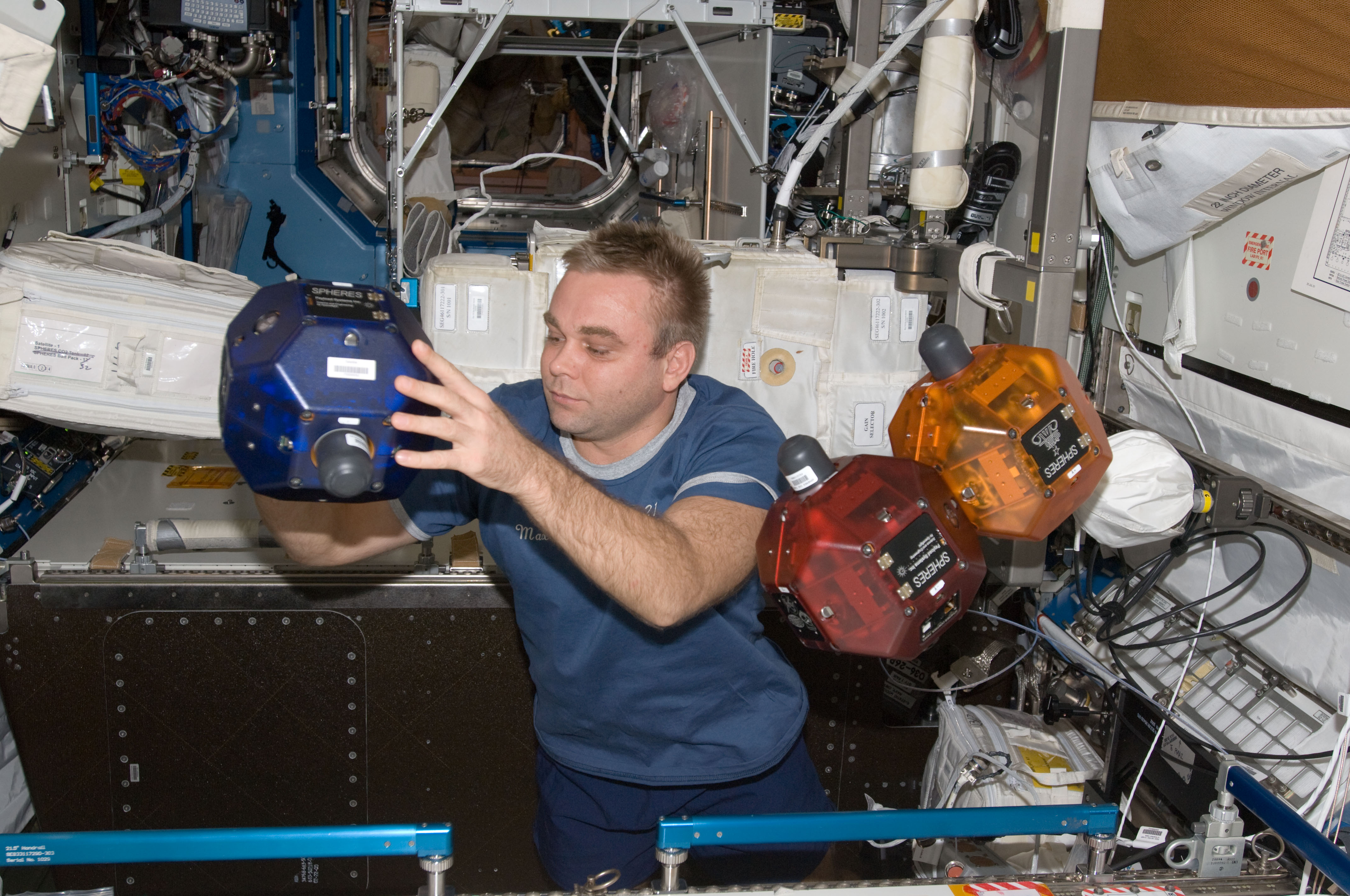 Russian cosmonaut Maxim Suraev, Expedition 22 flight engineer, performs a check of the Synchronized Position Hold, Engage, Reorient, Experimental Satellites (SPHERES) Beacon / Beacon Tester in the Destiny laboratory of the International Space Station.